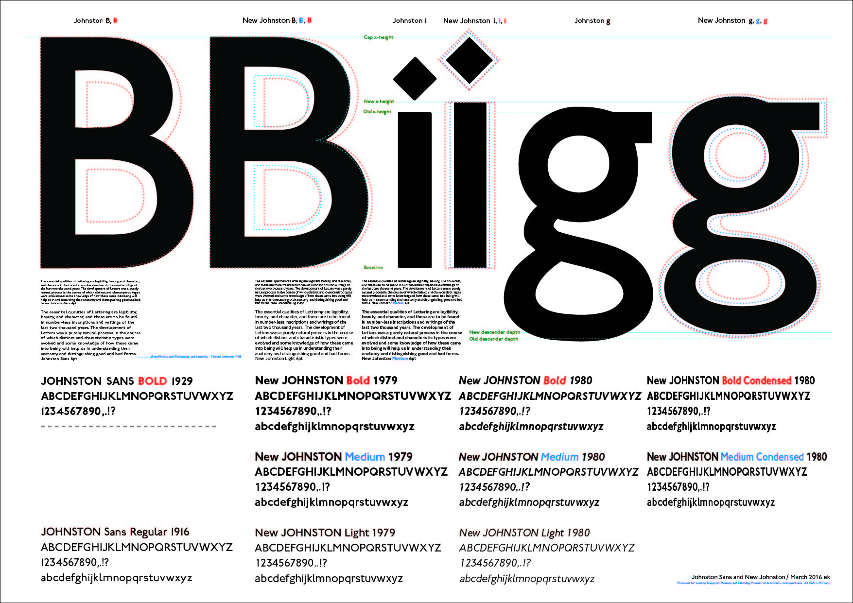 Detailed comparison; how New Johnston is designed to fit for wider applications